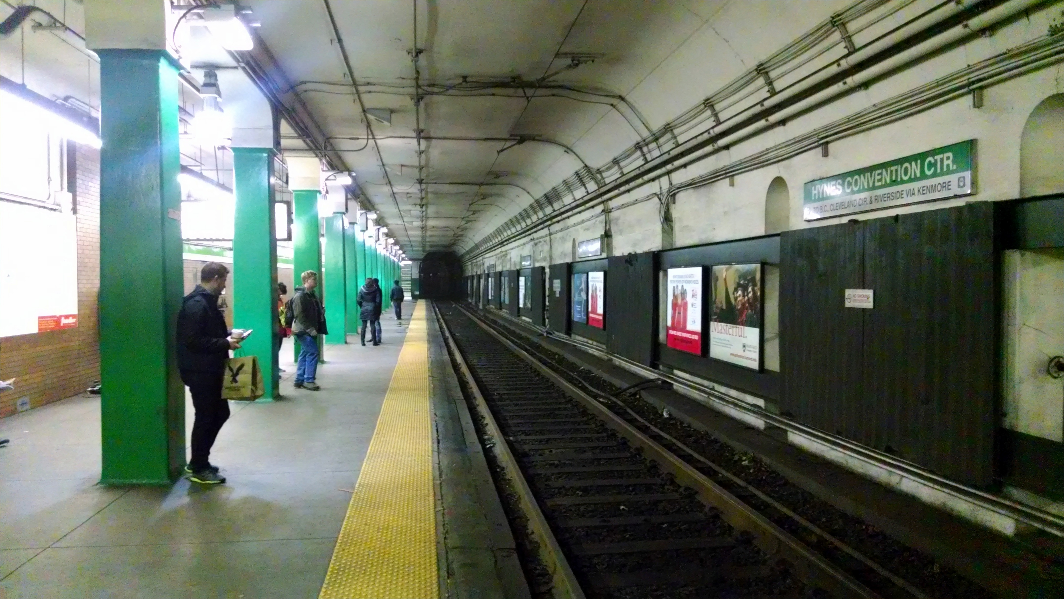 Outbound platform at Hynes Convention Center station